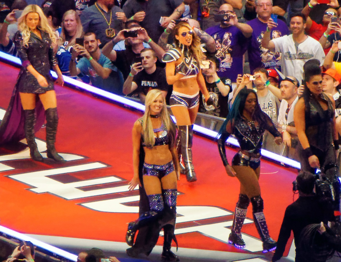 Team B.A.D. Blonde entrance during the WrestleMania 32 event in April 3, 2016.